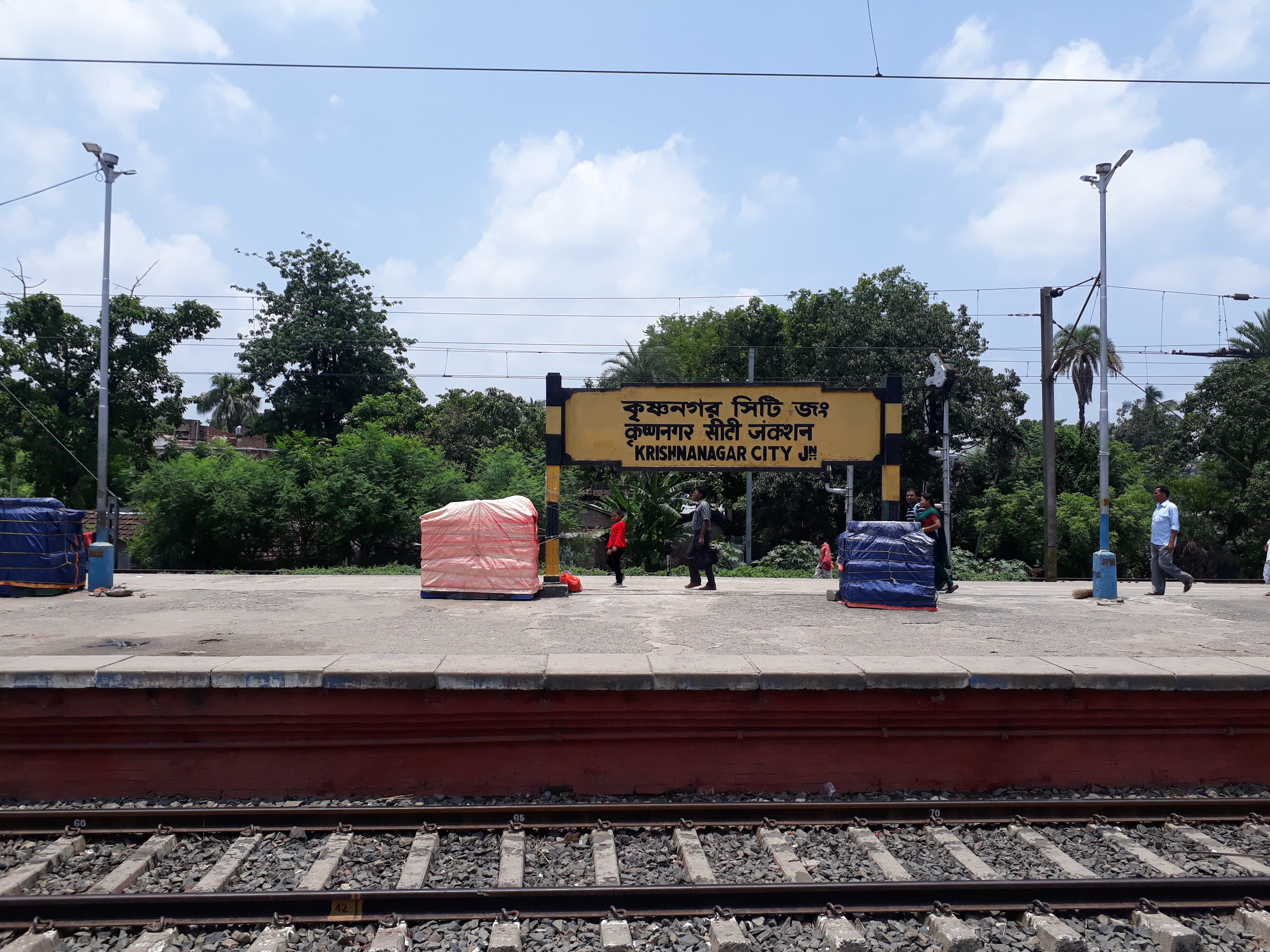 Krishnanagar City Junction railway station on Sealdah Lalgola line, Nadia district, West Bengal